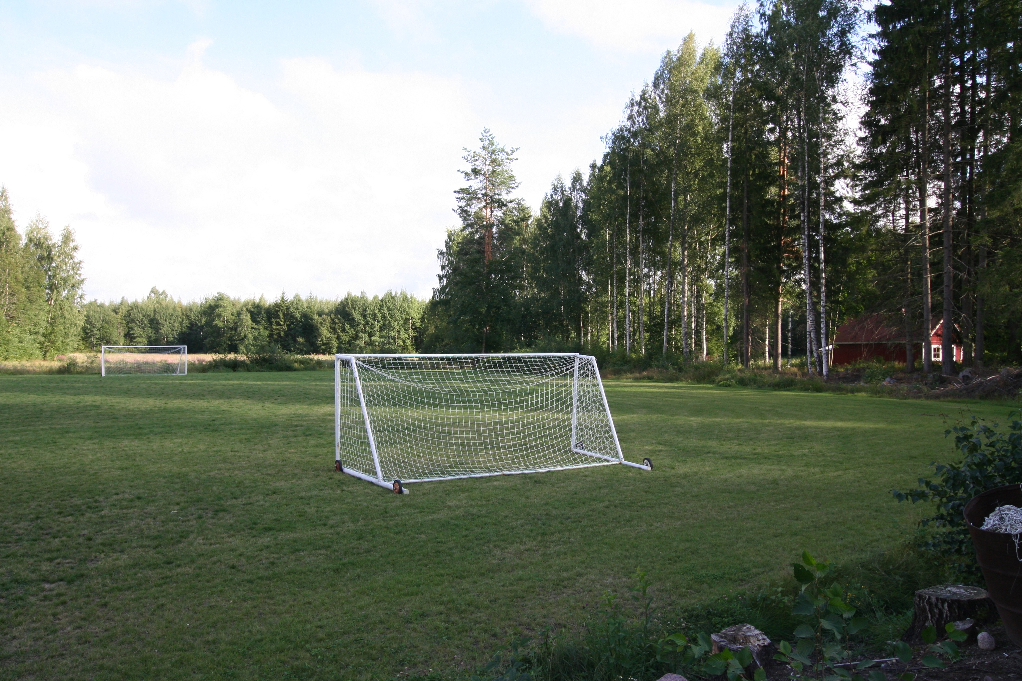 Mallusjoki football field, orimattila